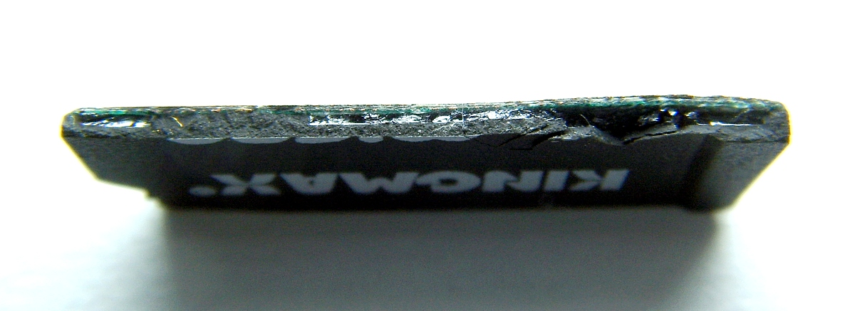 The picture shows a dissect 64MB MicroSD card. The pins are on the left side.